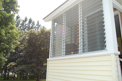 Photo showing jalousie windows